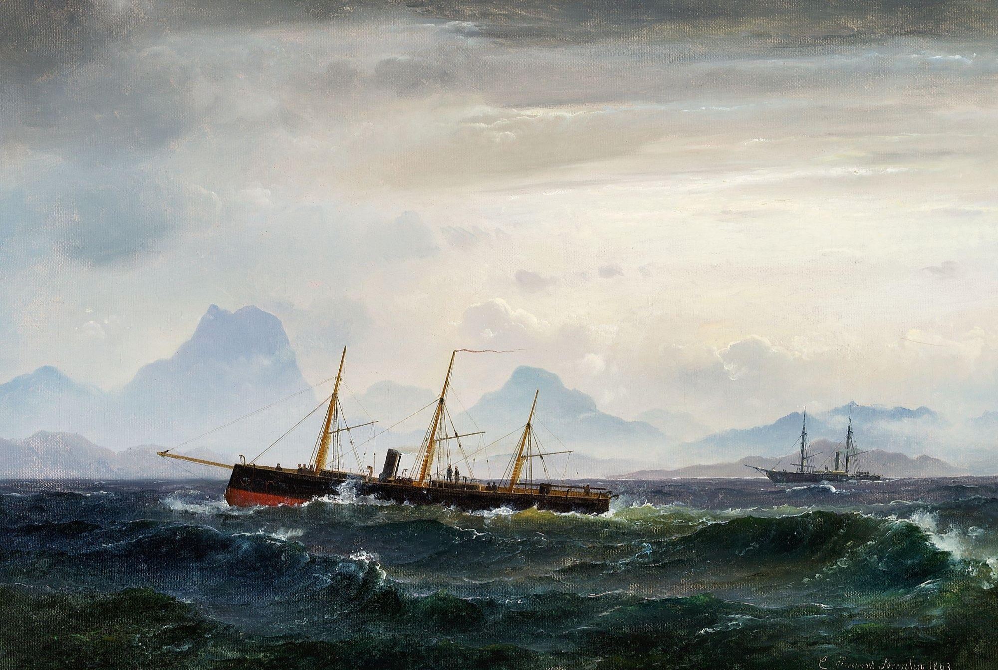 The title "Seascape with steam- and sailing ships" is not very descriptive. These are in fact the Danish naval ships Rolf Krake and Geiser off the coast of Scotland in 1863. Geiser was sent to Scotland with a crew for the Rolf Krake, which was being built by Robert Napier. Sørensen made a drawing of the two ships during a trial on June 29, which was later used by the weekly Illustreret Tidende. This is a much more vivid version. The ships left Glasgow on July 3 1863 and were in Copenhagen on the 9th. (Source:R.Steen Steensen: Vore panserskibe, page 242).